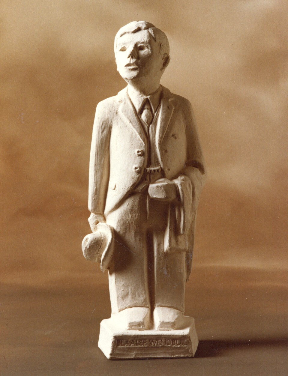 The statue of the Blaalse Wendbuil by Wim Gubbels